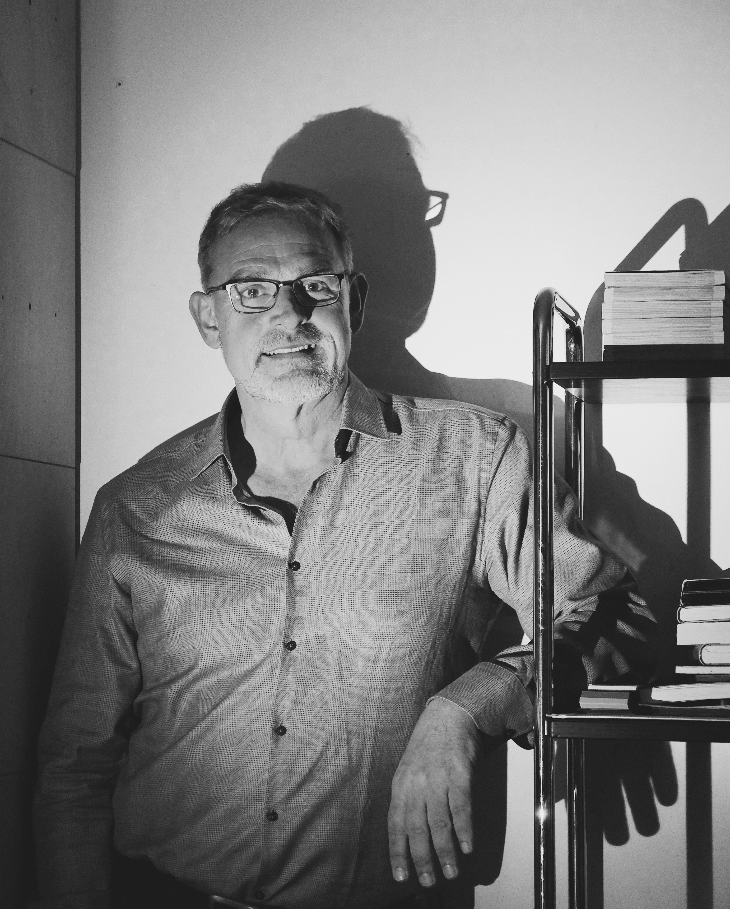 German journalist, architecture critic, movie critic and fotographer Moritz Holfelder